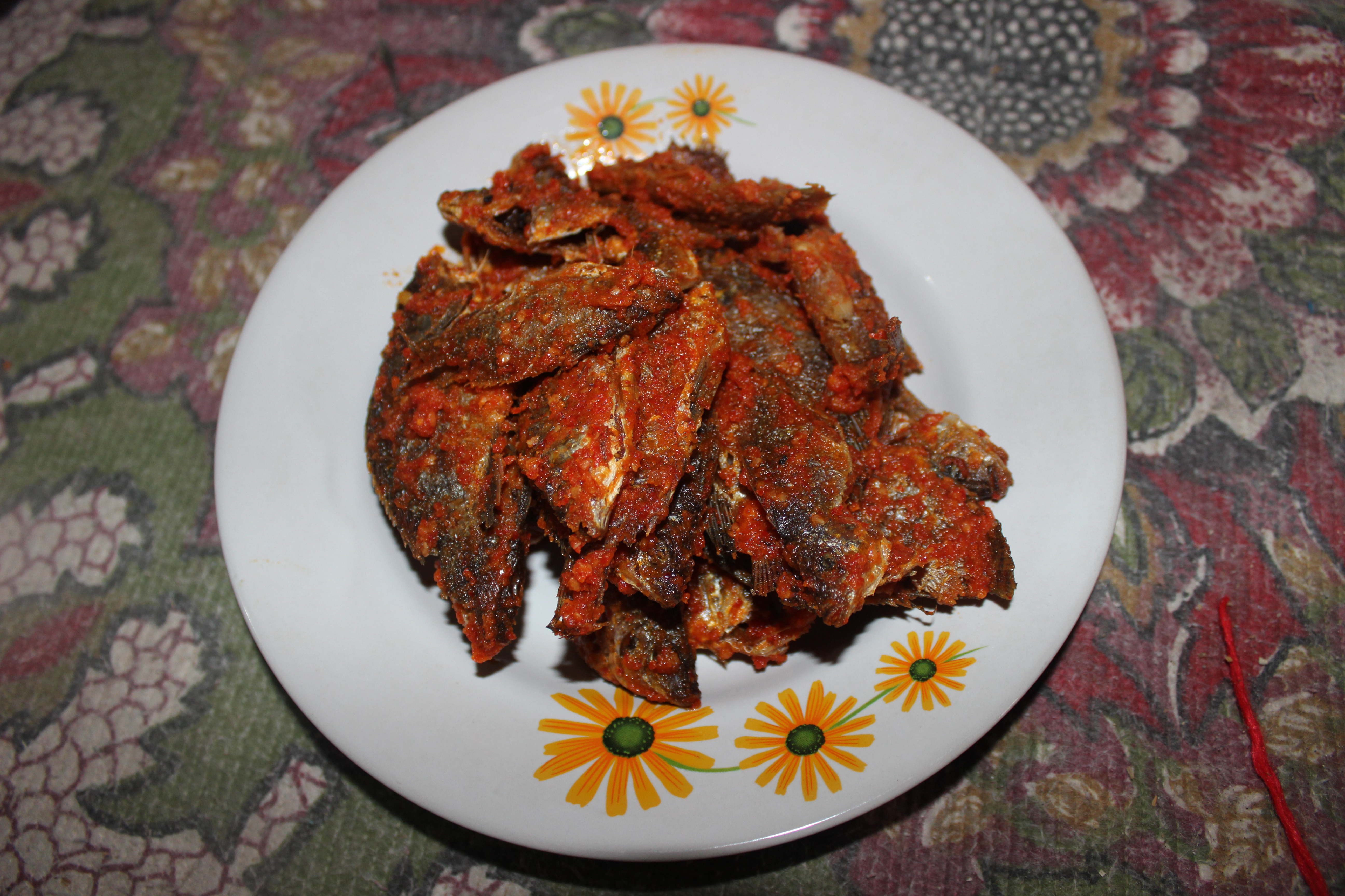 The bada balado (an example of anchovies with chilli) from the Tarusan river in Kamang Mudik, Kamang Magek Agam.